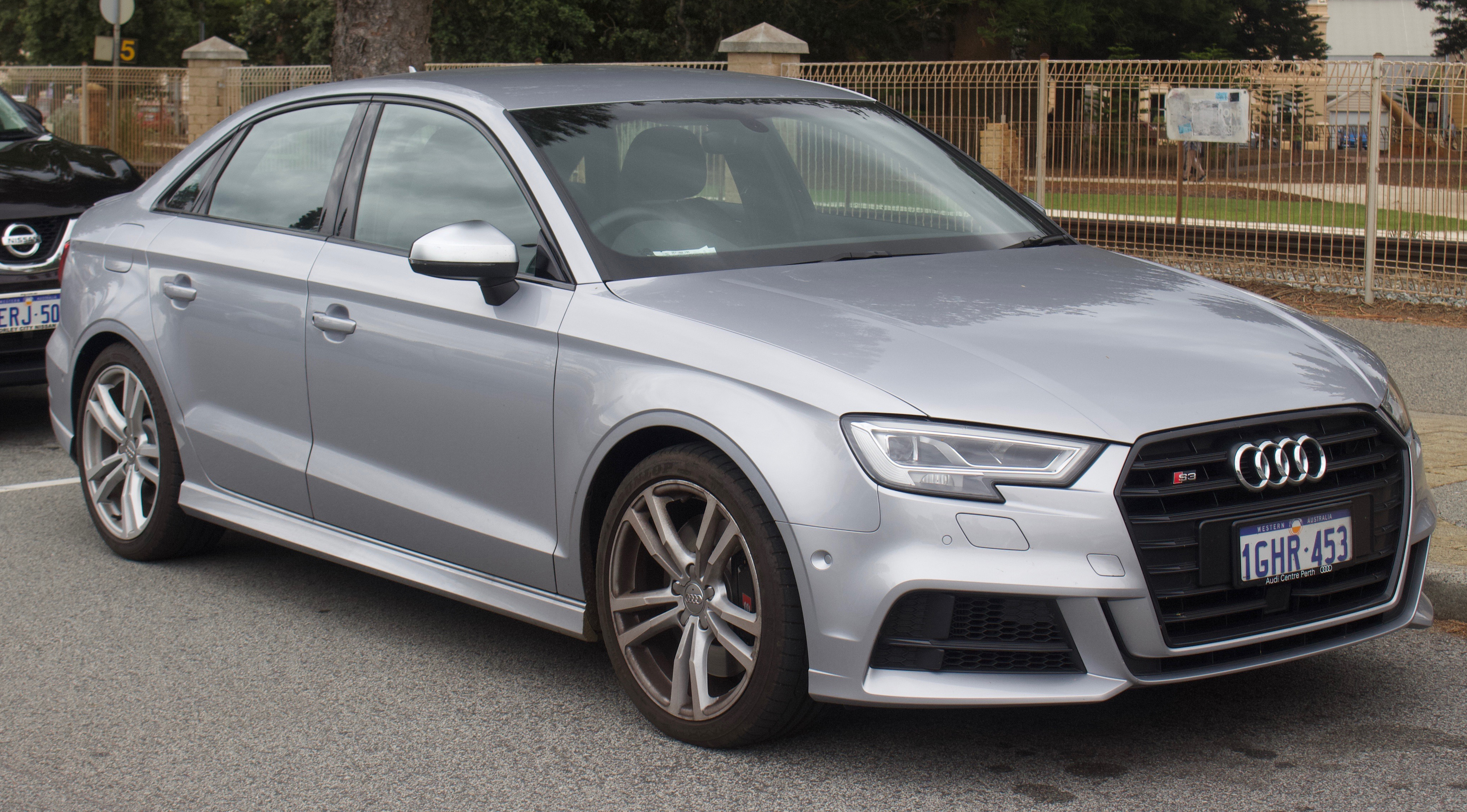 2017 Audi S3 (8V MY17) quattro sedan. Photographed in Fremantle, Western Australia, Australia.